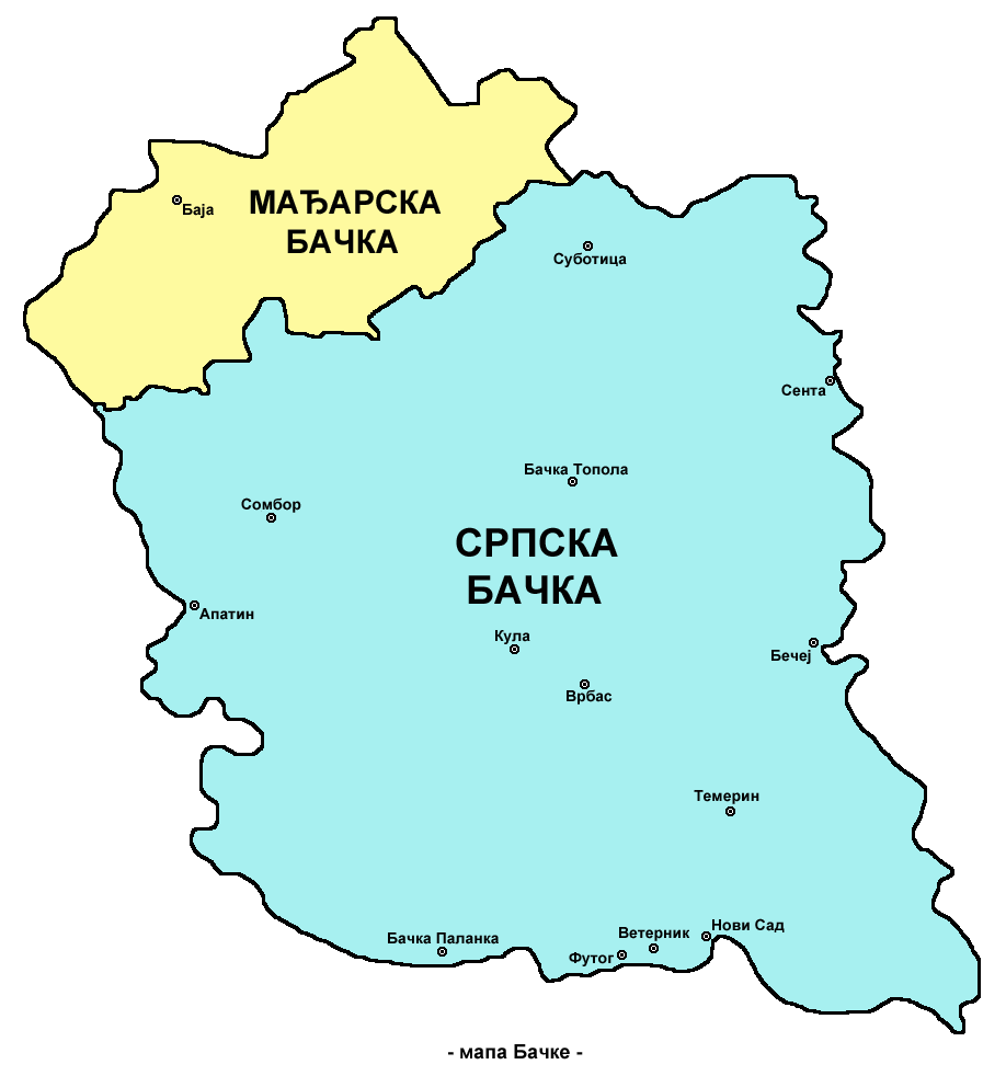 Map of Bačka region - Serbian language version. Serbian: Мапа Бачке - верзија на српском језику. References References for historical/geographical borders of Bačka and modern state borders: Školski istorijski atlas, Zavod za izdavanje udžbenika Socijalističke Republike Srbije, Beograd, 1970. Milovan Radovanović, Kosovo i Metohija - antropogeografske, istorijskogeografske, demografske i geopolitičke osnove, Beograd, 2008. Slobodan Radovanović, Geografski atlas, Magic Map, Smederevska Palanka, 2001. Školski geografski atlas, Intersistem Kartografija, Beograd, 2004. Denis Šehić - Demir Šehić, Geografski atlas Srbije, Beograd, 2007. References for sizable cities and towns: Popis stanovništva, domaćinstava i stanova u 2002., Stanovništvo, nacionalna ili etnička pripadnost - Podaci po naseljima, knjiga 1, Republika Srbija - Republički zavod za statistiku, Beograd, februar 2003.